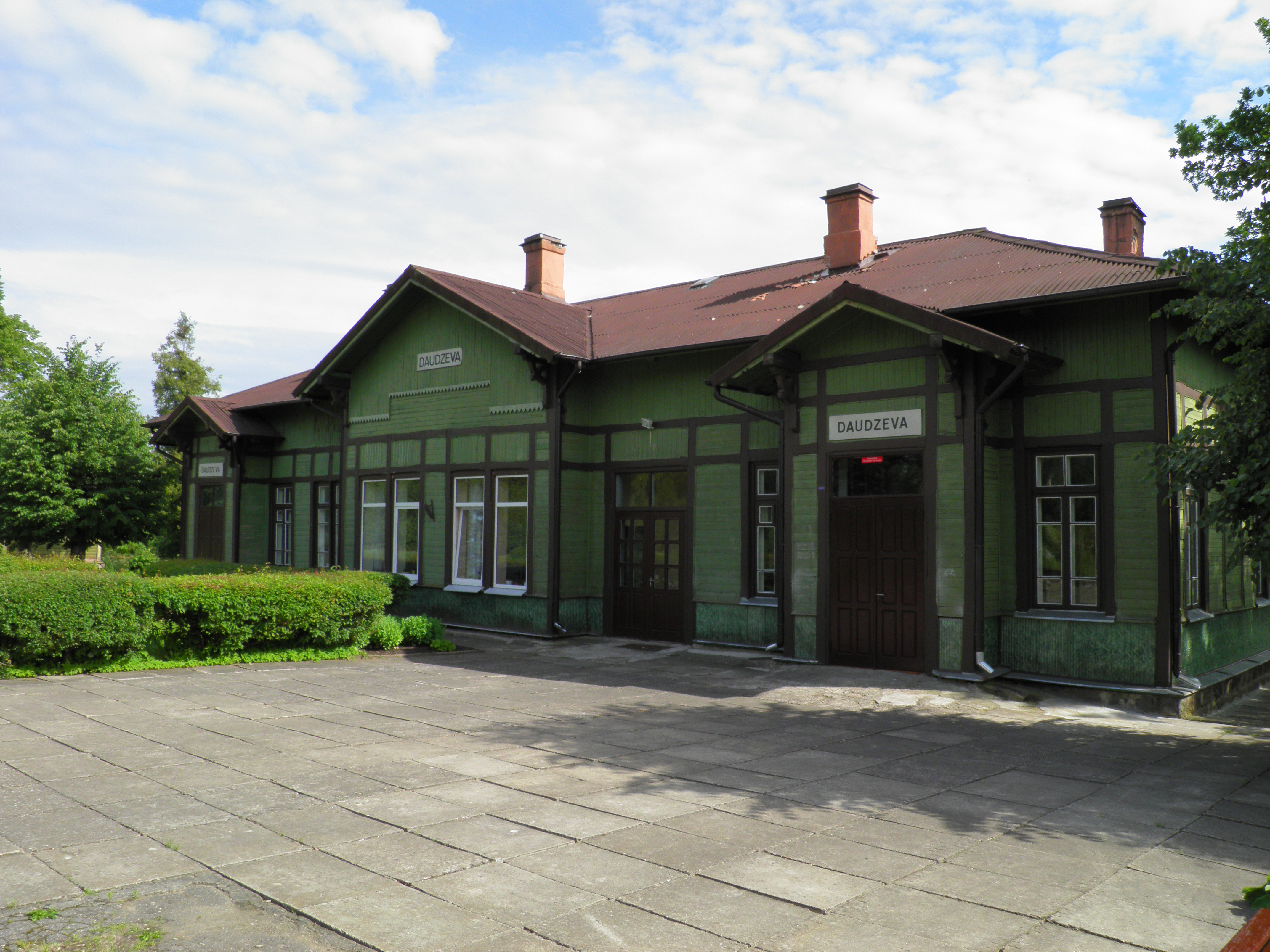 Daudzeva train station